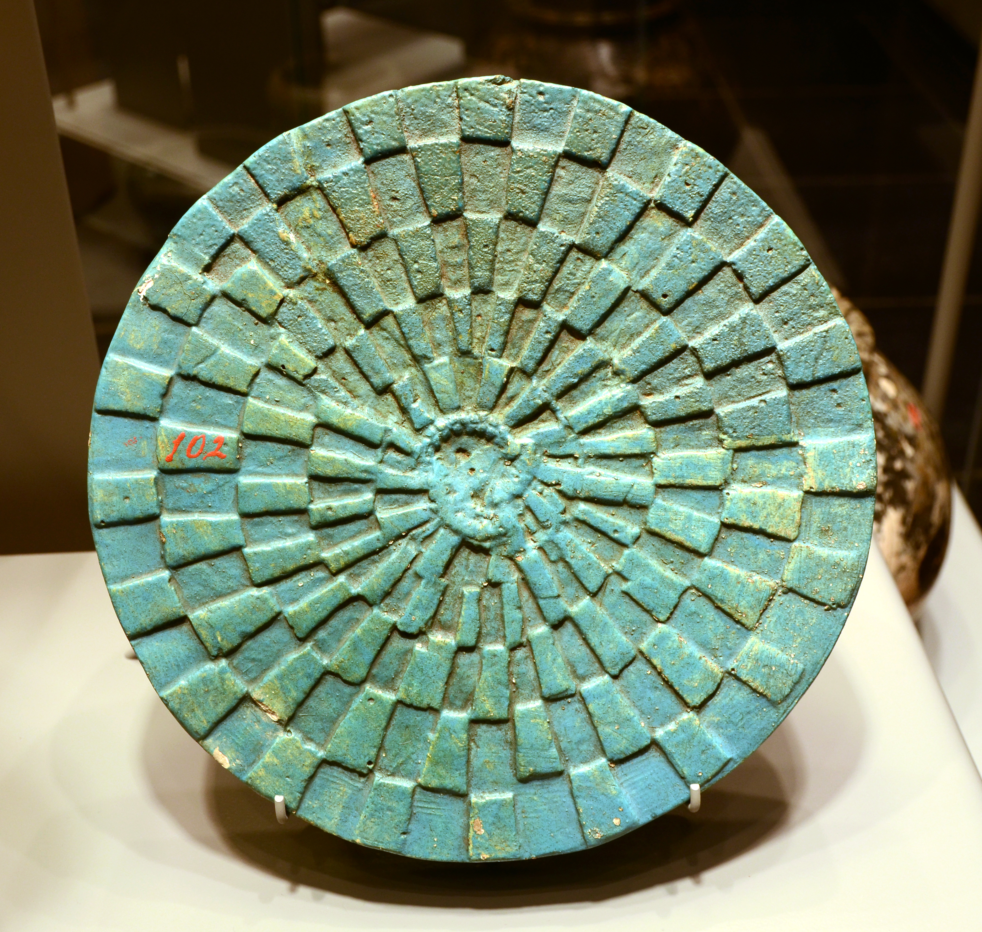 Game board, blue frit, Egypt ( Abydos ), 2d dynasty ( 2770-2650 BC ), from King Peribsen's grave. Musée de Mariemont.